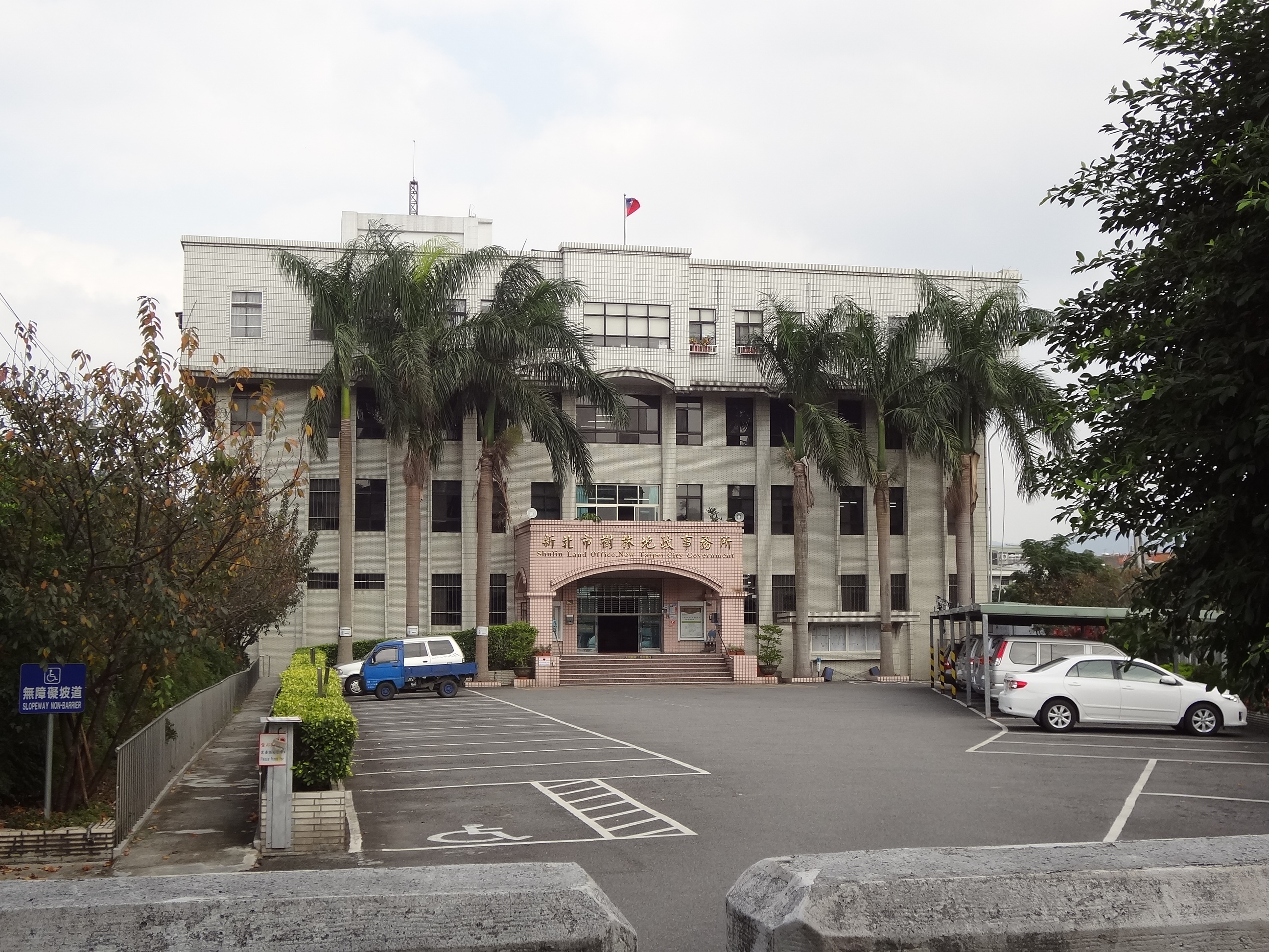 Shulin Land Office, New Taipei City Government.